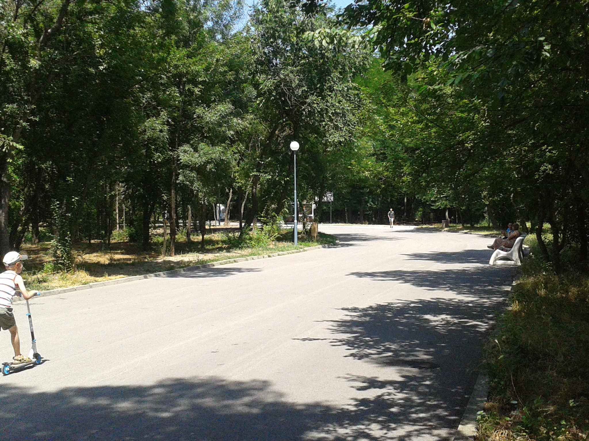 Lauta Park - Plovdiv